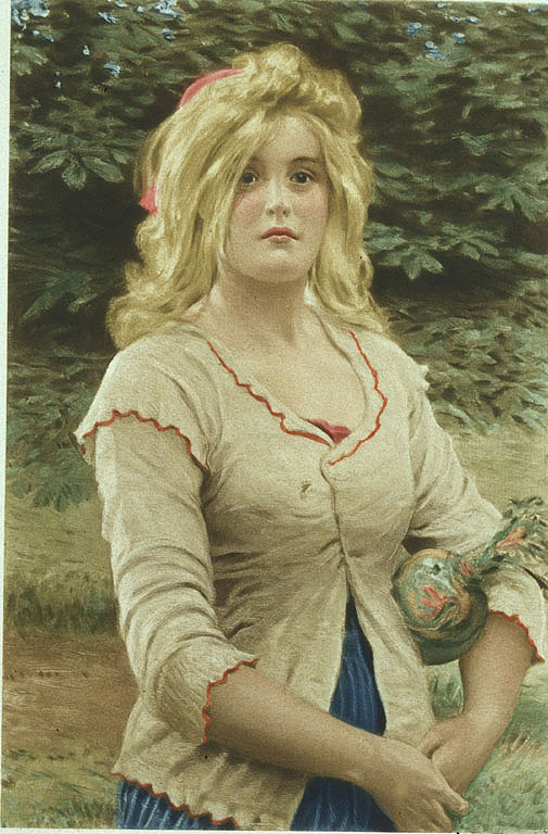 Audrey